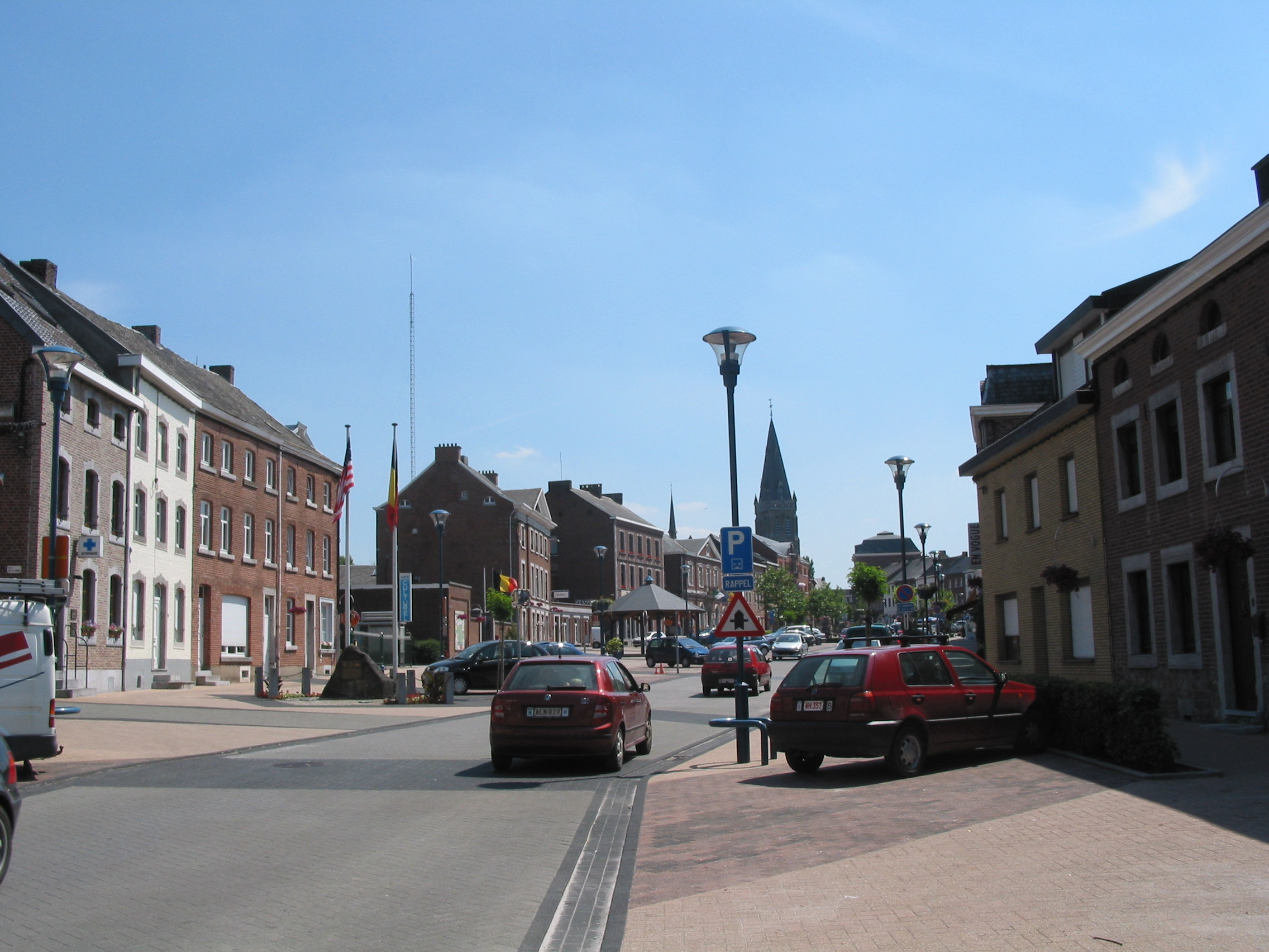 Aubel (Belgium), the center of the township.